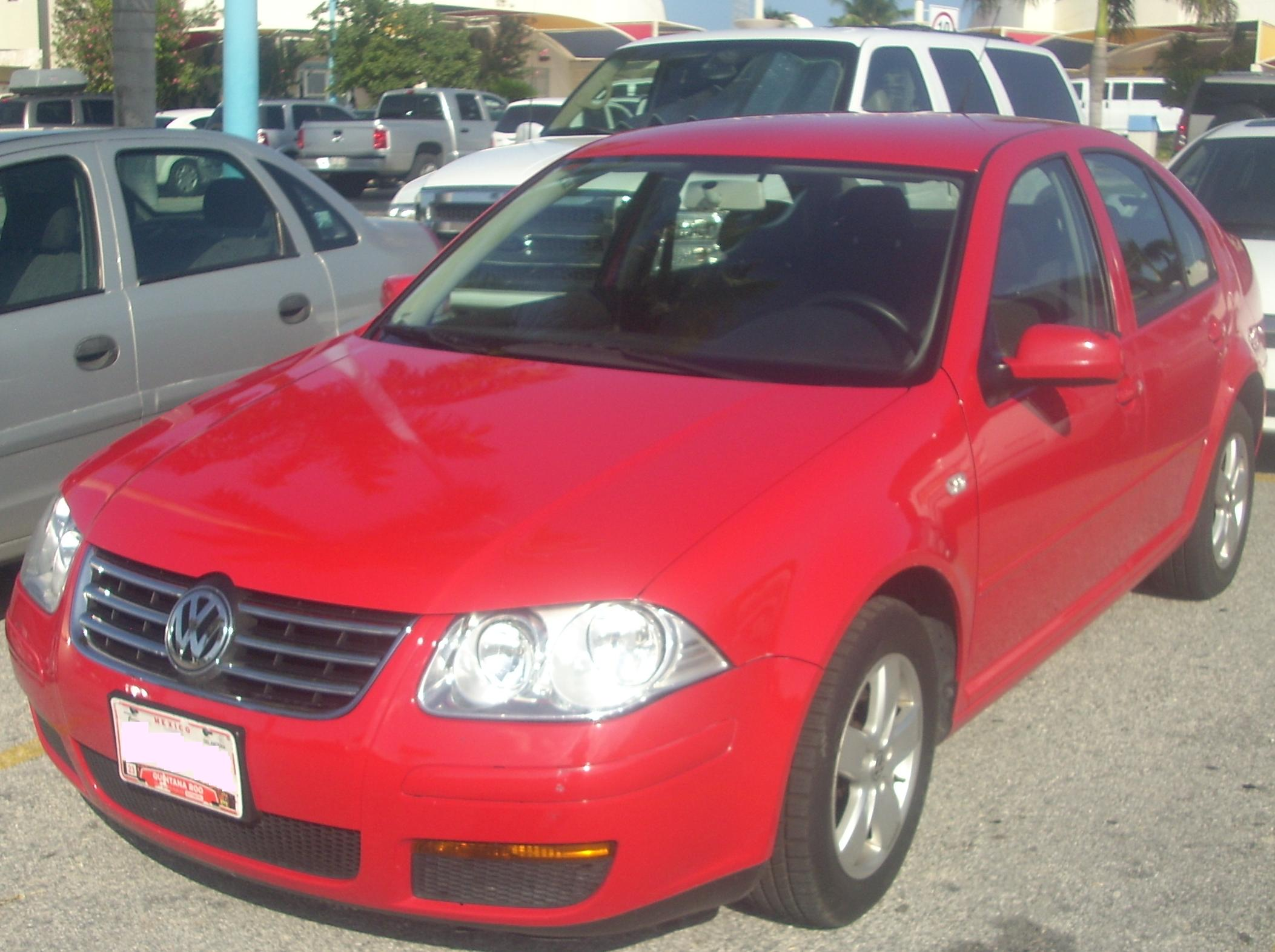 2008-present Volkswagen Jetta photographed in Cancun, Quintana Roo, Mexico.